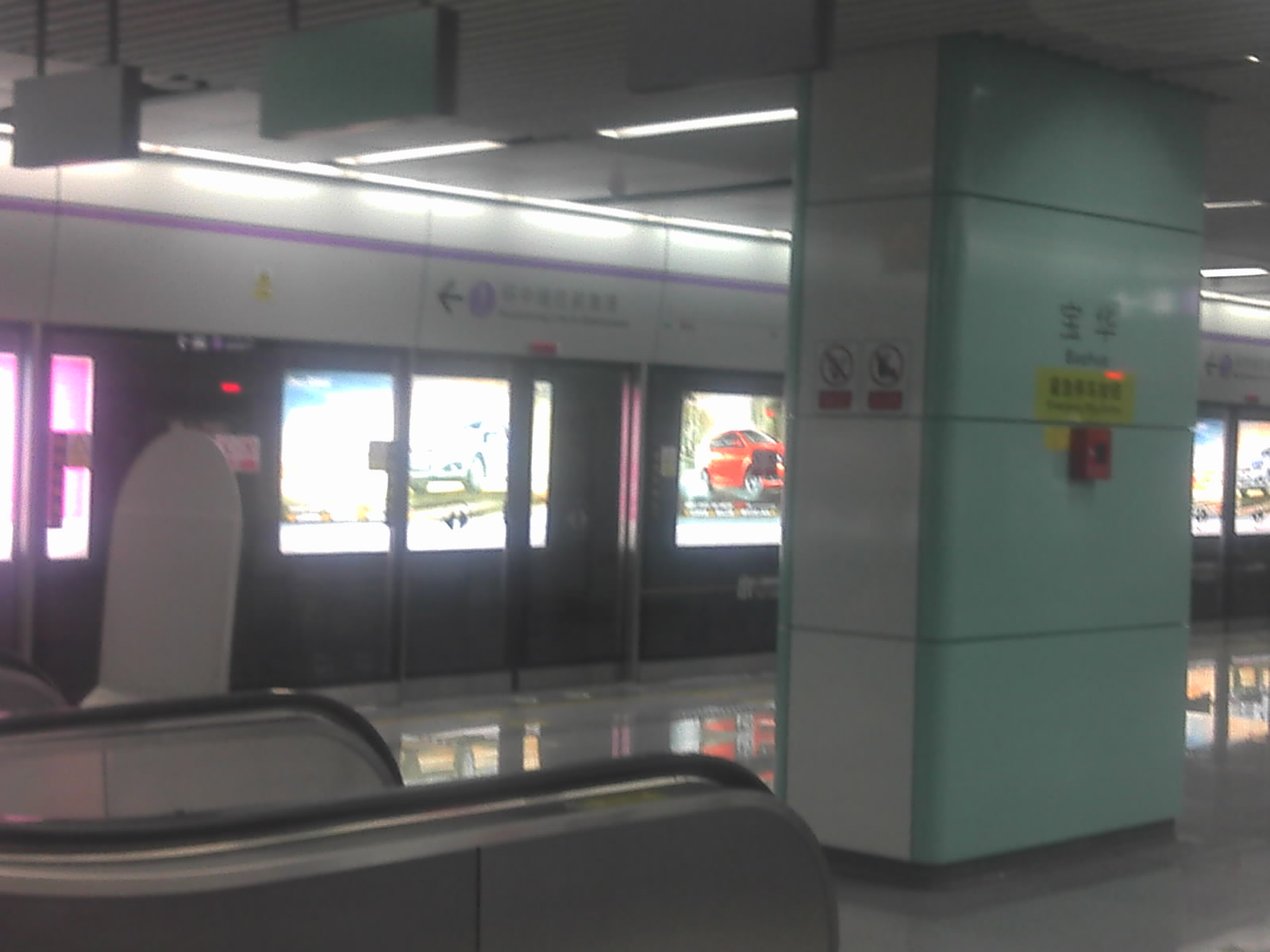 This photo was taken as Nov 19, 2011.